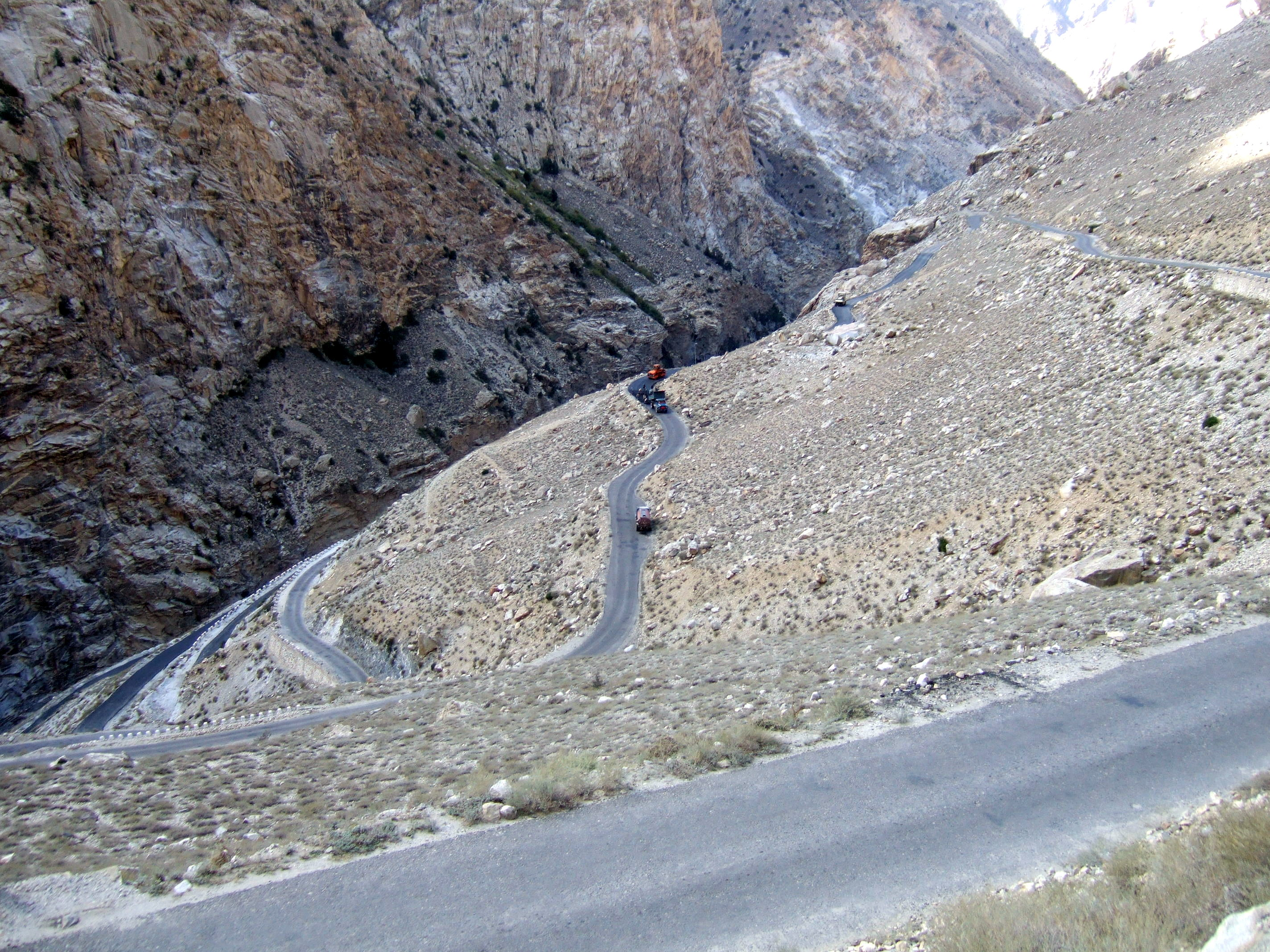 Looking down at the switchbacks that lead up to Nako.